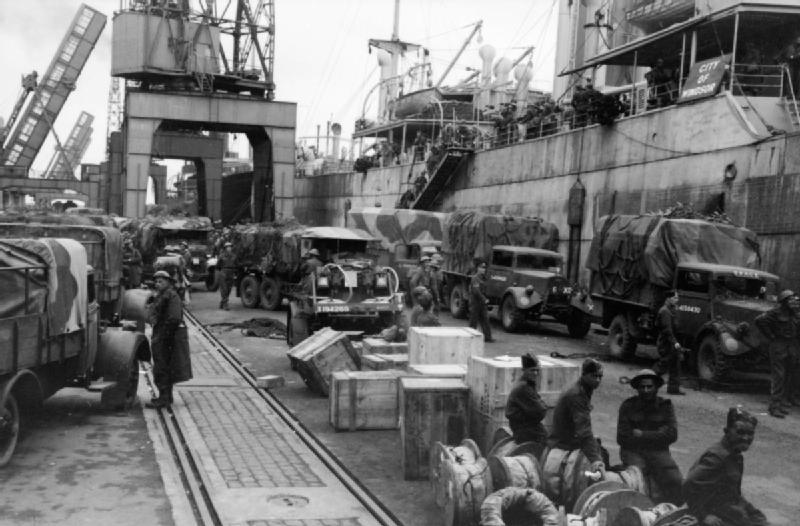 The British Army in France 1940 Motor transport on the quayside at Cherbourg during the evacuation of British forces from France, 13 June 1940.